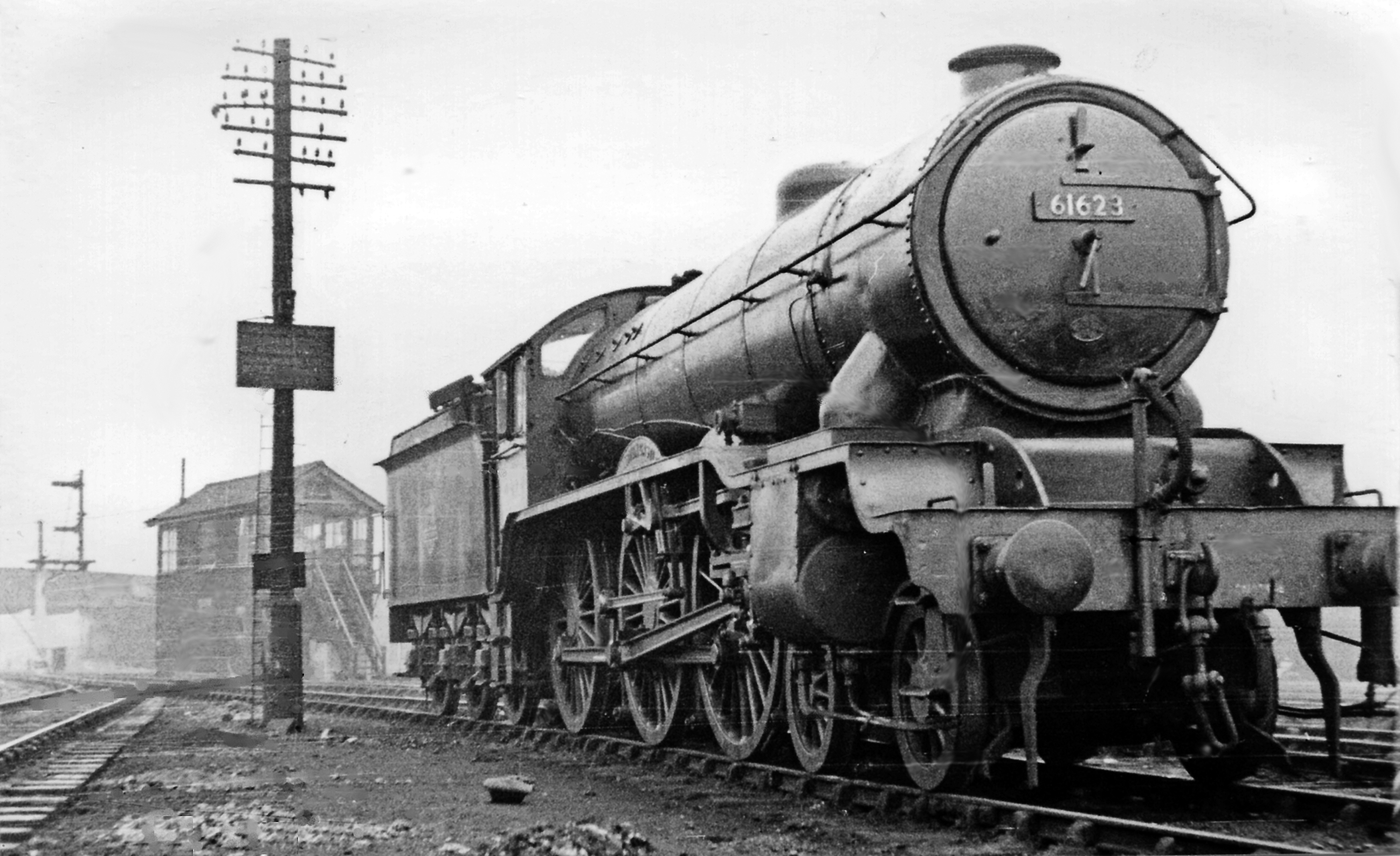 Gresley 'Sandringham' 4-6-0 at Cambridge. Backing out of the Locomotive Yard near the north of the Station is B17/6 4-6-0 No. 61623 'Lambton Castle', built 2/31 as B17/2 No. 2823 (No. 1623 from 1946), converted to B17/6 in 4/48, withdrawn 7/59.